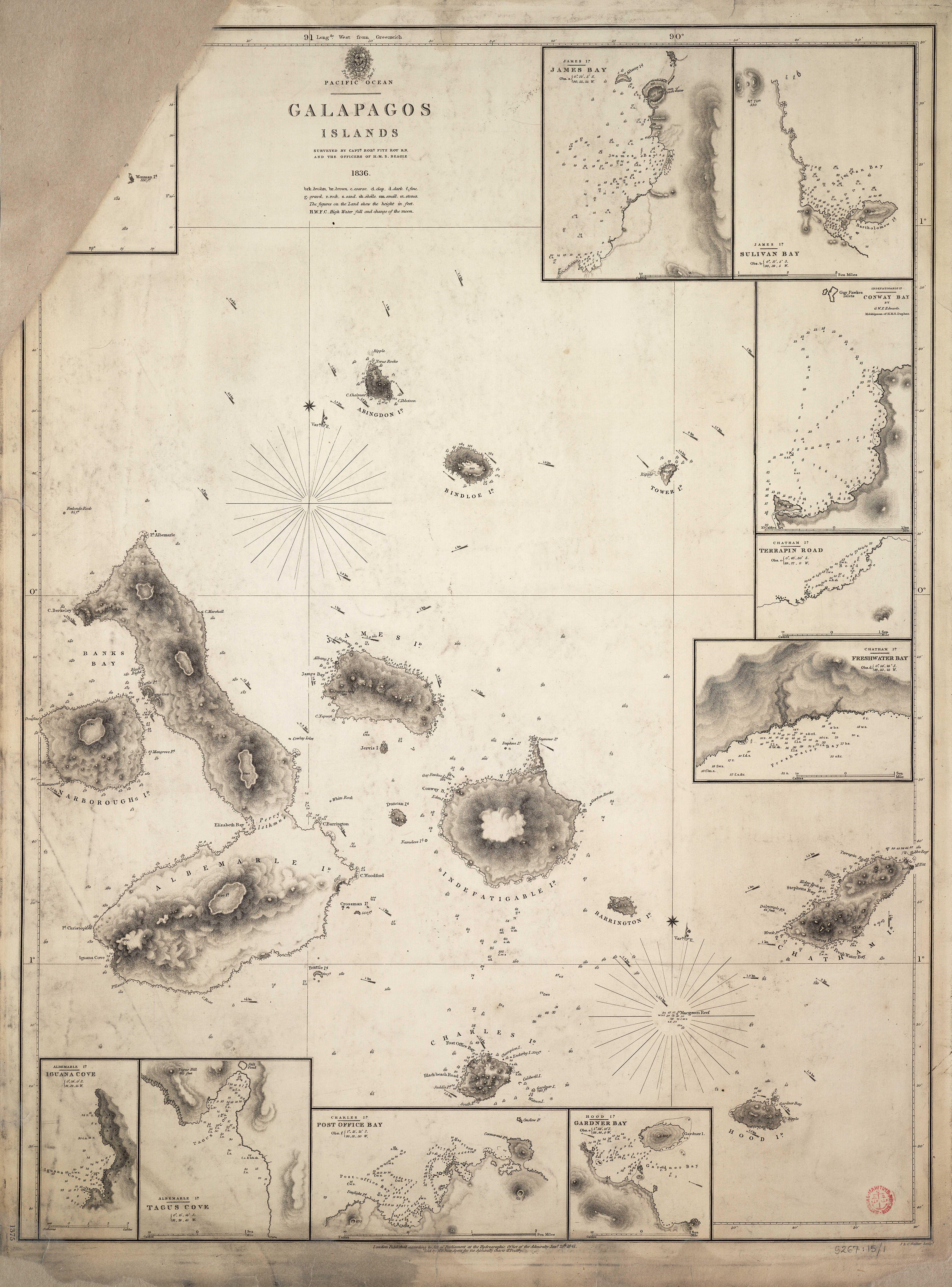 Nautical chart of the Galapagos Islands. Surveyed by Captn. Robt. Fitz Roy R.N. and the officers of H.M.S. Beagle 1836. No current - not to be used for navigation!